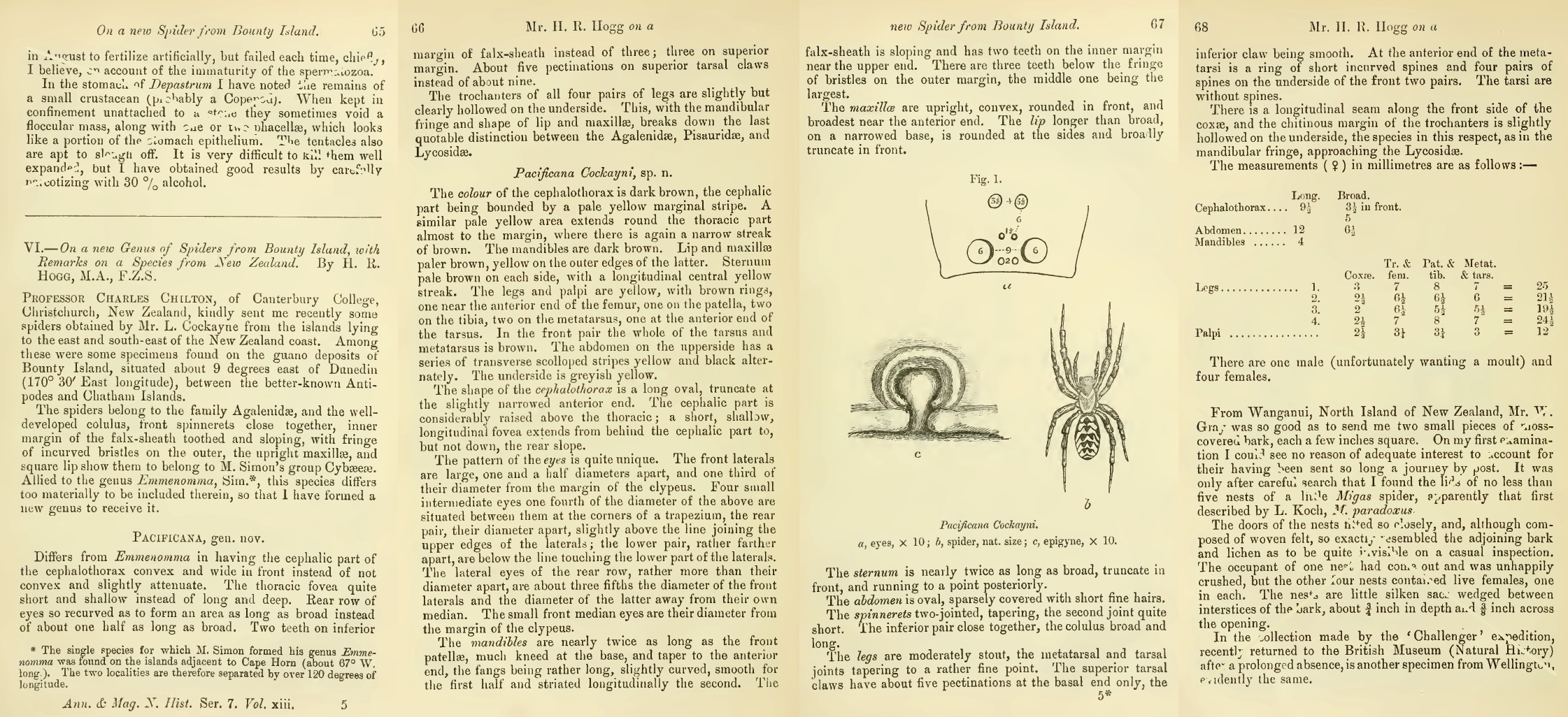 Original scientific description of 1904 of a new species and new genus of spider (Pacificana cockayni), discovered on the sub-antarctic Bounty Islands (New Zealand).